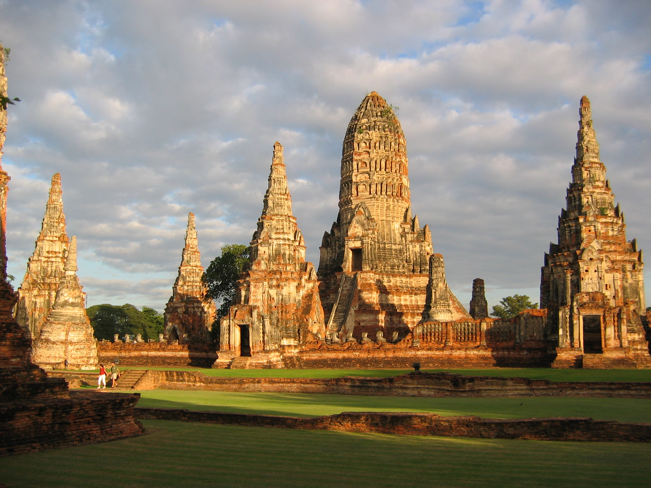 Wat Chaiwatthanaram in the Ayutthaya Historial Park